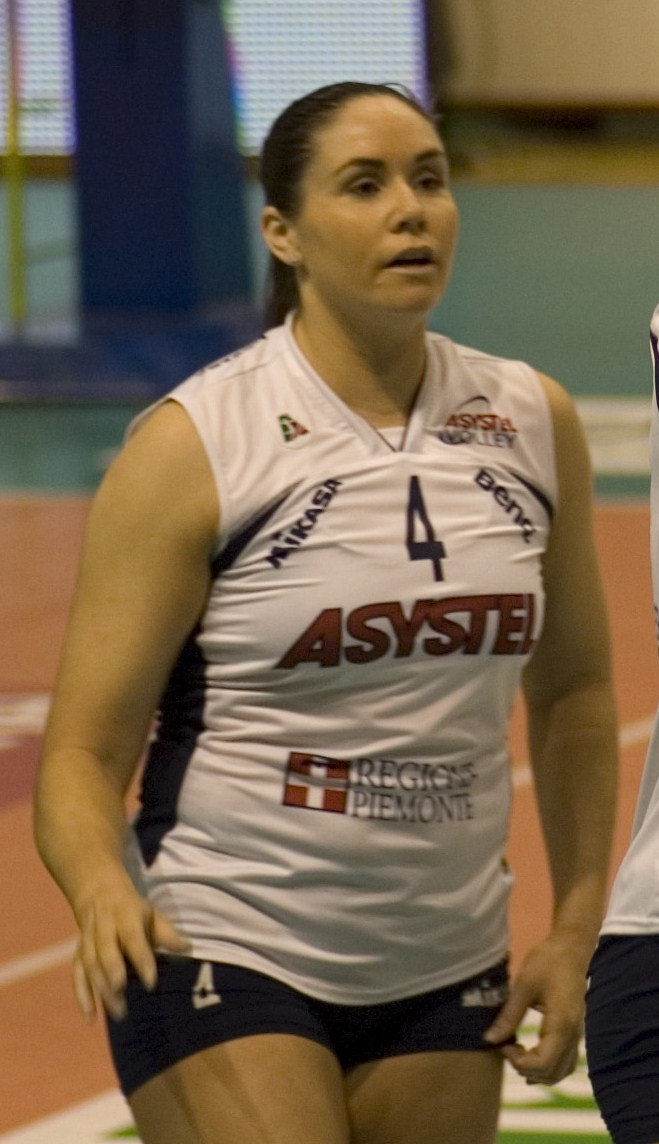 American volleyball player Lindsey Berg